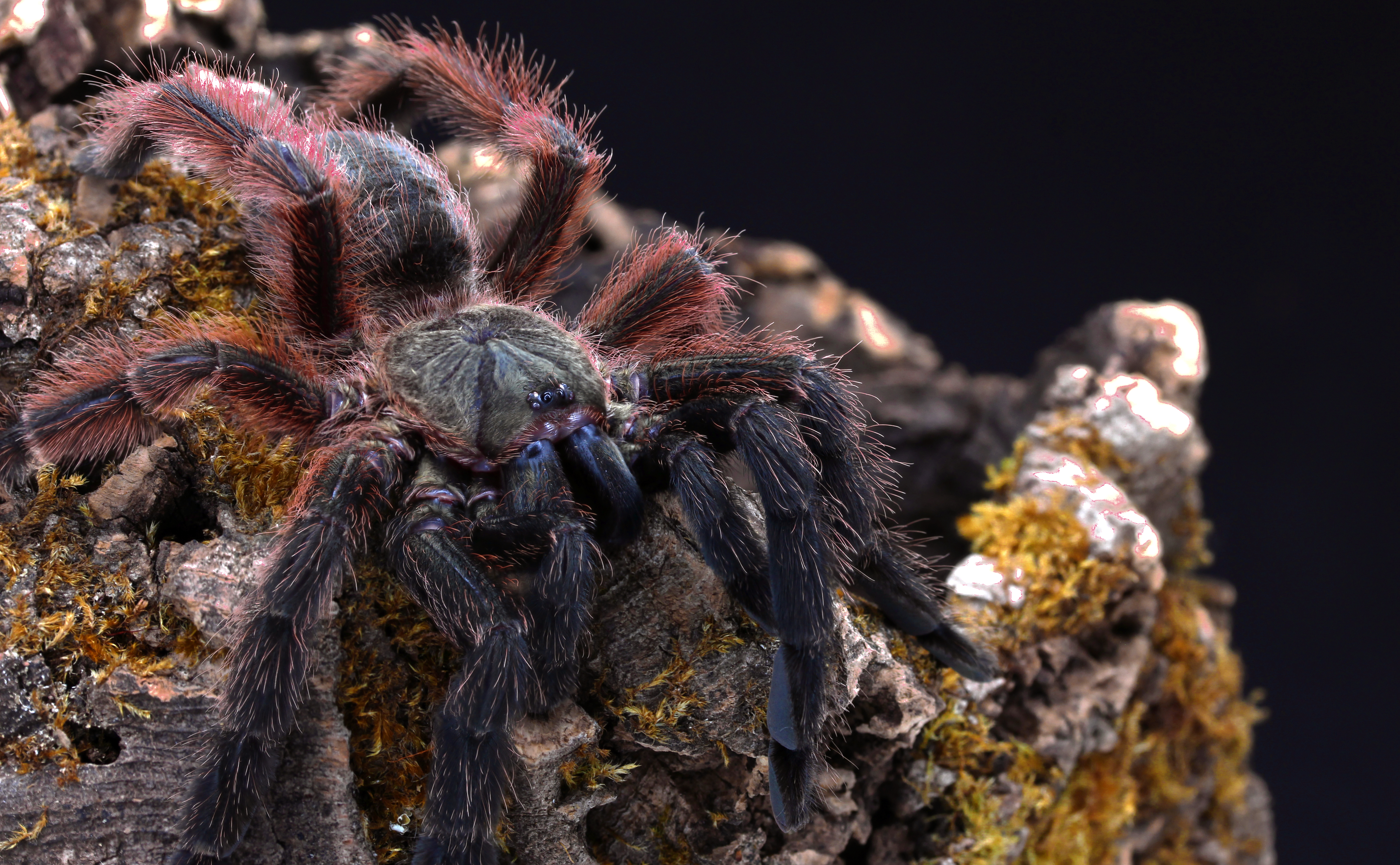 P victori